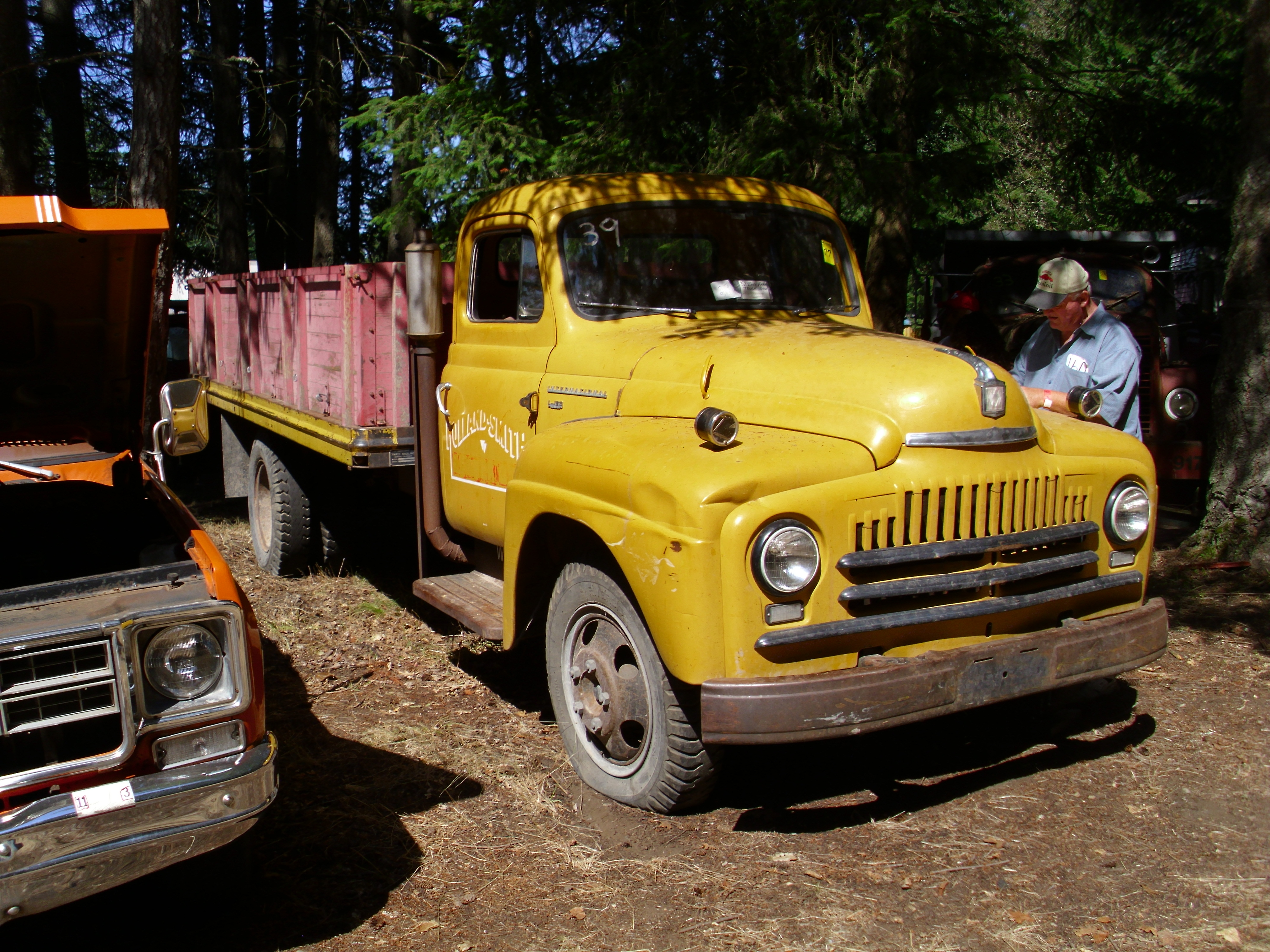 Among the unrestored vehicles sold at the auction in conjunction with the LeMay Open House.